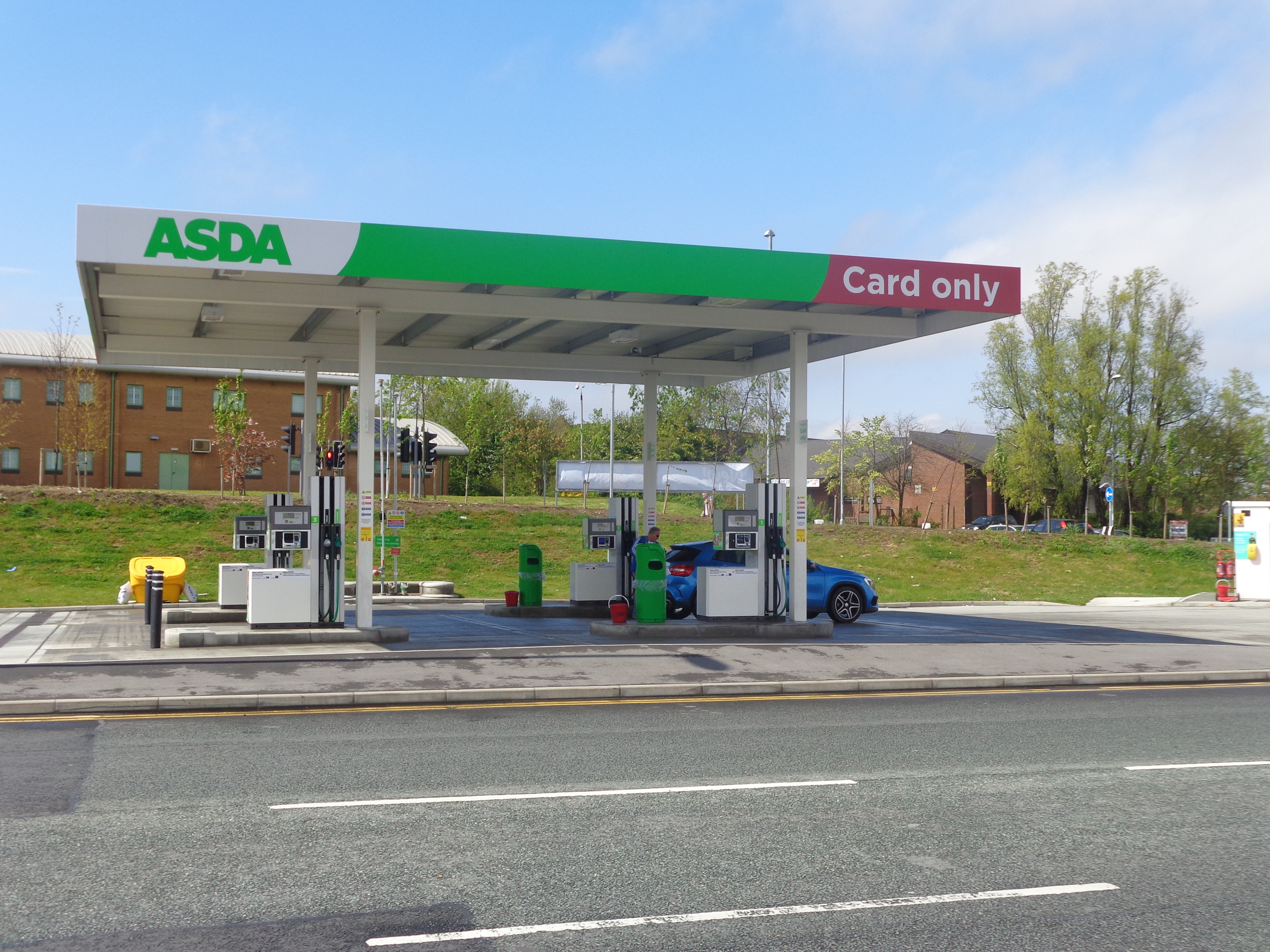 Asda self service petrol station, Middleton, Leeds, West Yorkshire. Taken on the afternoon of Sunday the 3rd of May 2015.